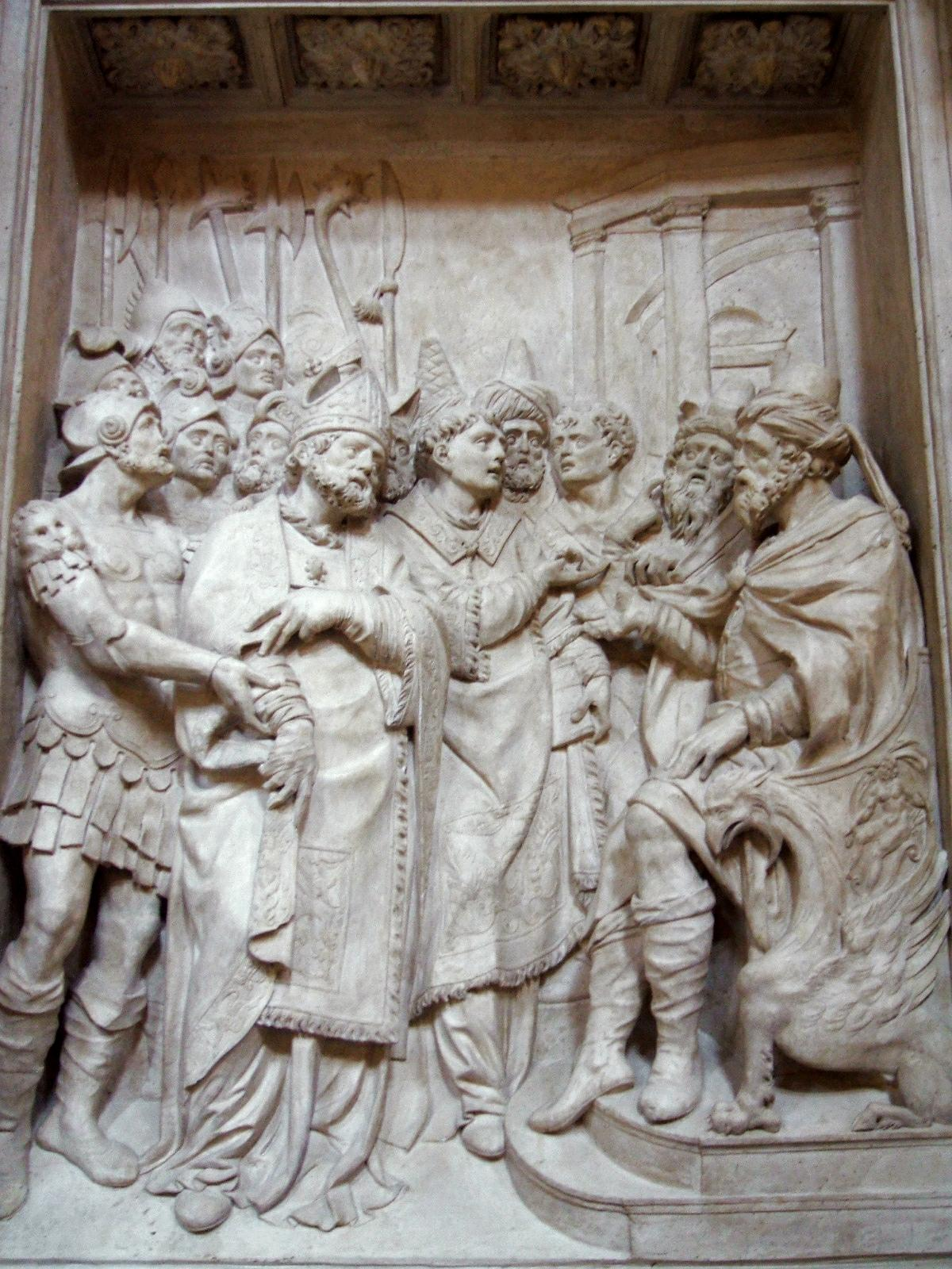 Relieve del trascoro de la Catedral del Salvador (La Seo) de Zaragoza (Aragón, España)